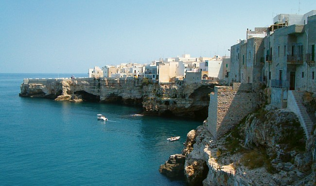 Polignano a Mare picture taken by user:Idéfix july 2003